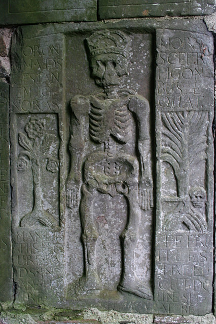 Ancient headstone dedicated to the Rose family by Geddes The age of this burial site is impressive; I saw the year 1462 engraved on a stone here. Angus Mackintosh, 6th chief of Clan Mackintosh and 7th chief of the Clan Chattan 1345 Brought up by his uncle, Alexander of Isla. Fought against the English at the Battle of Bannockburn in 1314, under Randolph, Earl of Moray. His lands of Meikle Geddes, Rait Castle and Inverness Castle were taken by the Clan Comyn. Married Eva, the daughter of Gilpatric Dougal Dall, the 6th chief of Clan Chattan. After Gilpatric's death Angus became chief of both Clan Mackintosh and Clan Chattan.